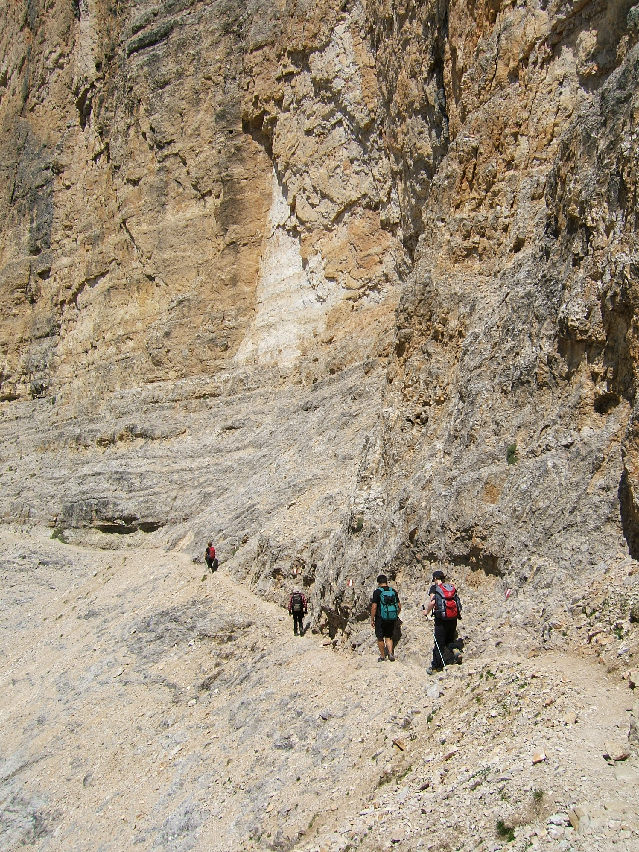 Trvaerse of western slope of Heiligkreuzkofel